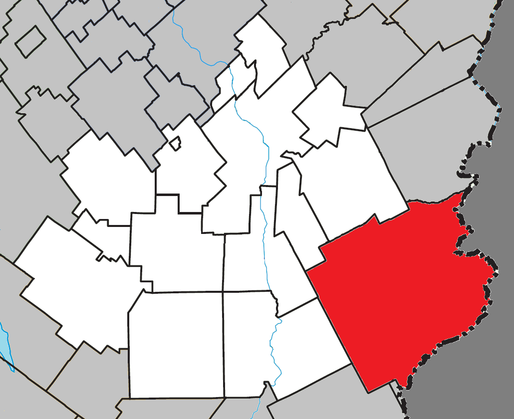 Location of Saint-Théophile, Quebec within Beauce-Sartigan Regional County Municipality.